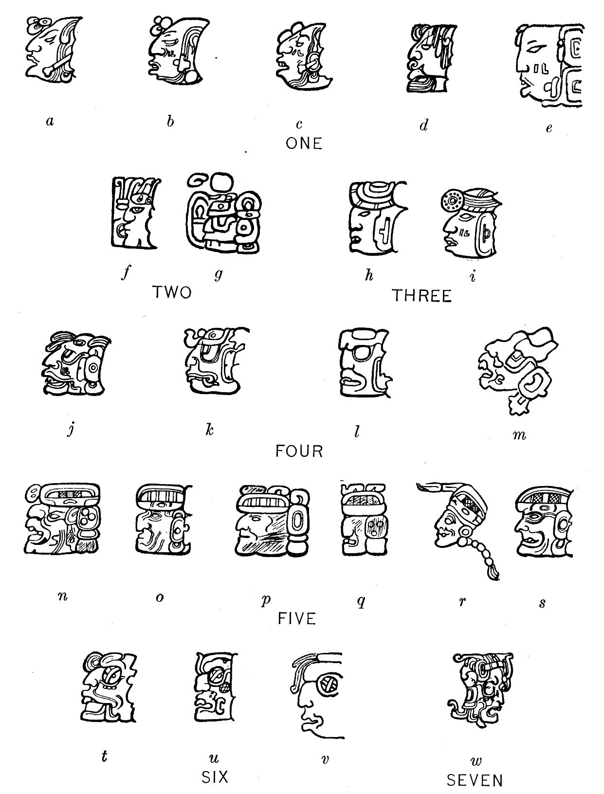 Head-variant numerals 1 to 7, inclusive (see Wikisource usage for further information).